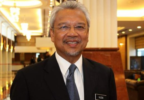 Malaysia's Second Finance Minister